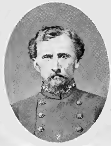 Colonel William Mc Rae, 2nd colonel of 15th North Carolina infantry regiment